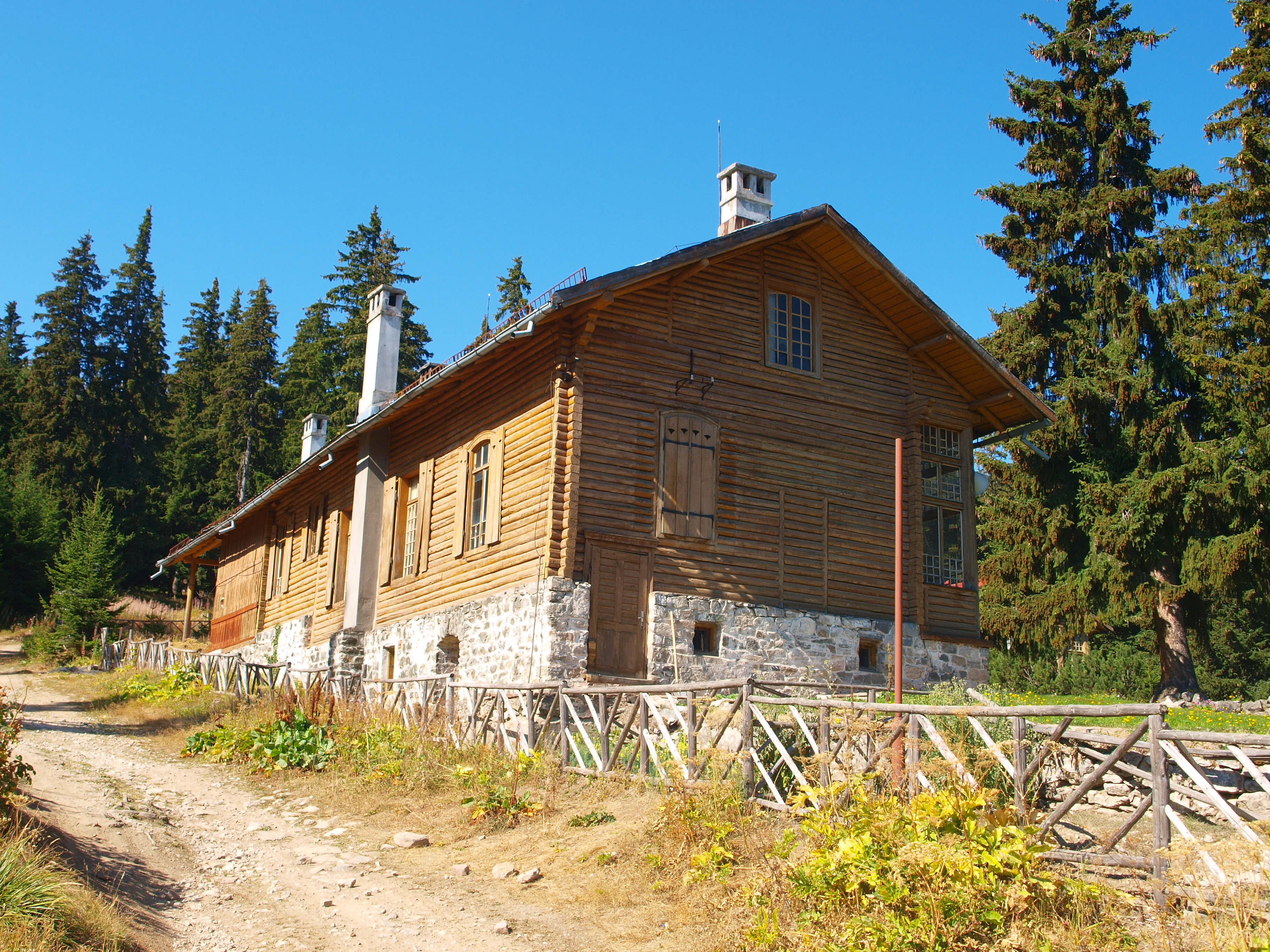 One of the buildings of the formerly royal Sitnyakovo hunting lodge in the Rila mountains of Bulgaria